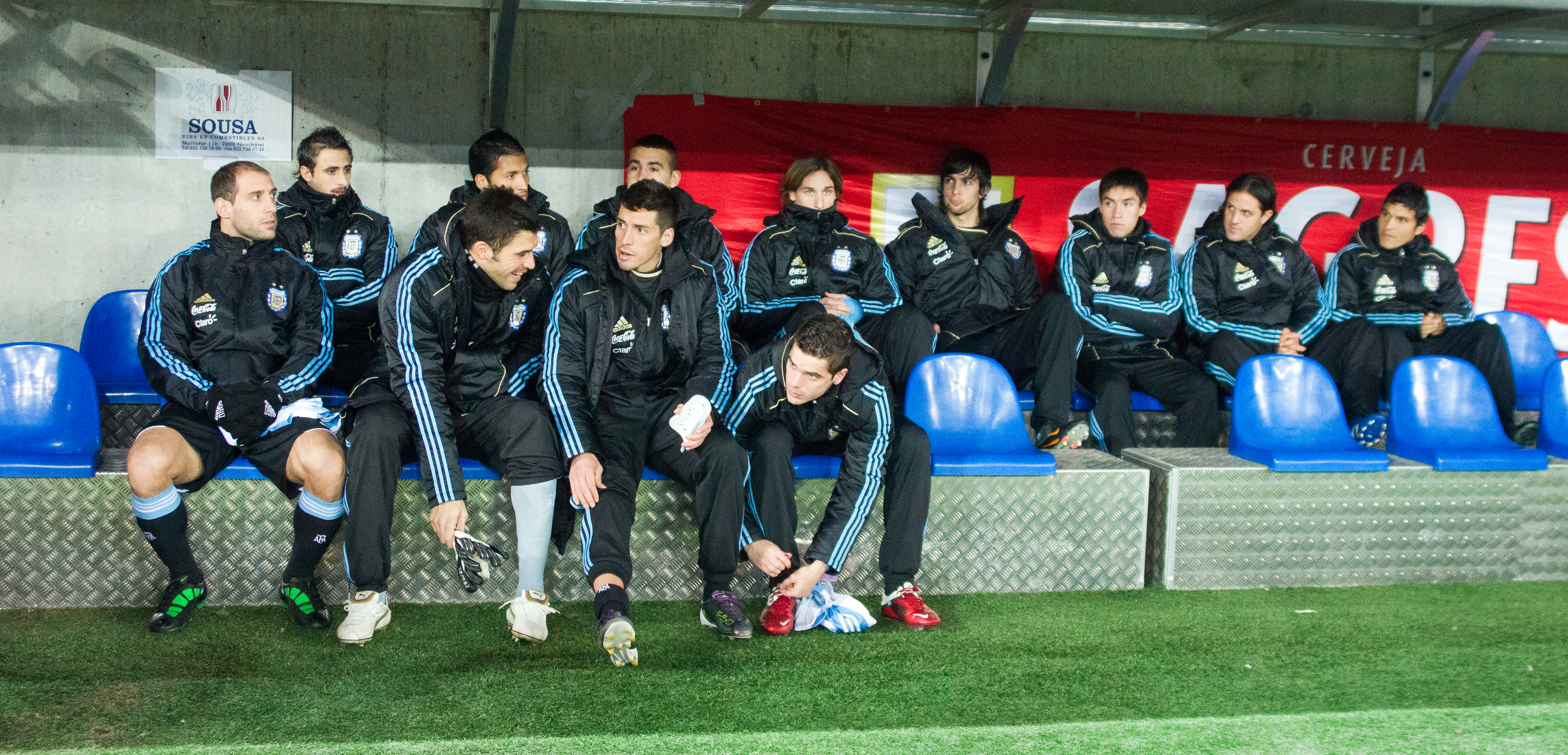 The making of this document was supported by Wikimedia CH. (Submit your project!) For all the files concerned, please see the category Supported by Wikimedia CH. Portugal vs. Argentina, 9th February 2011